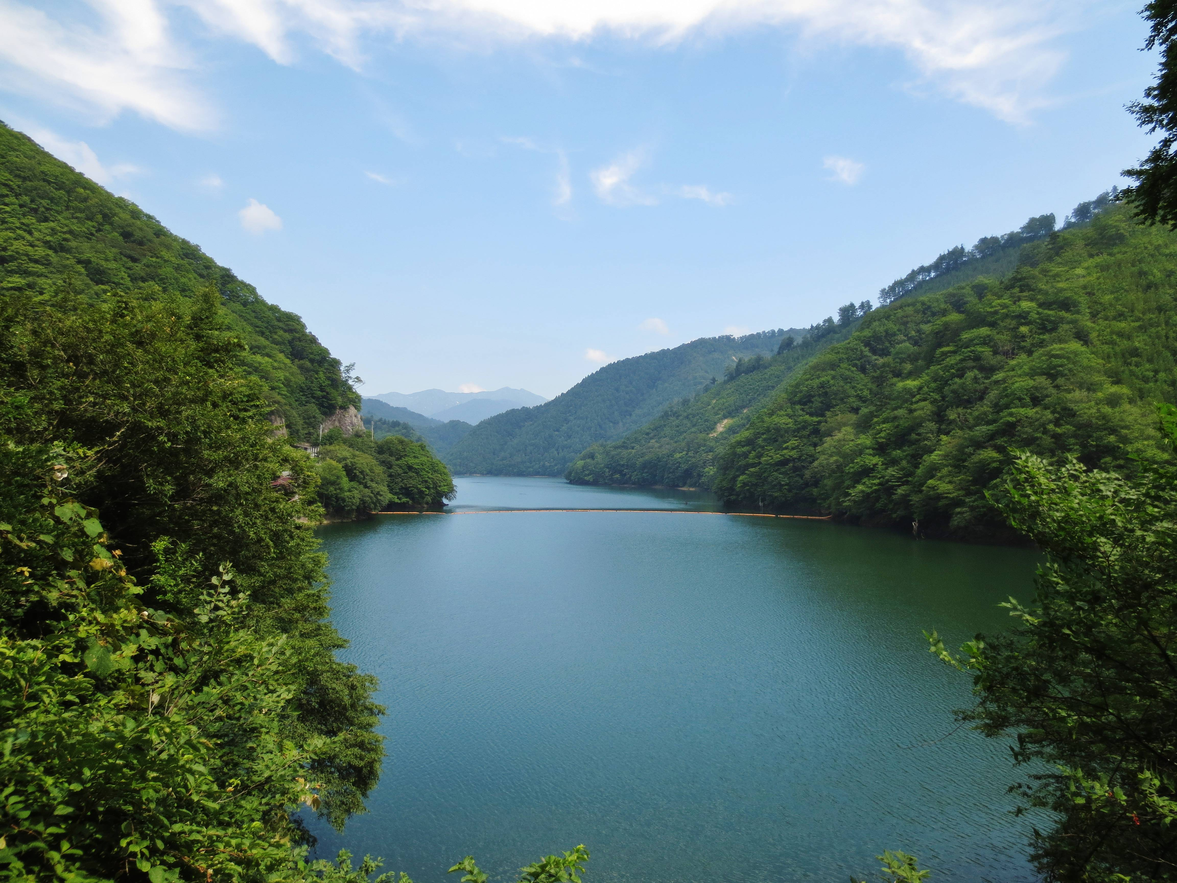 Sudagai Dam.